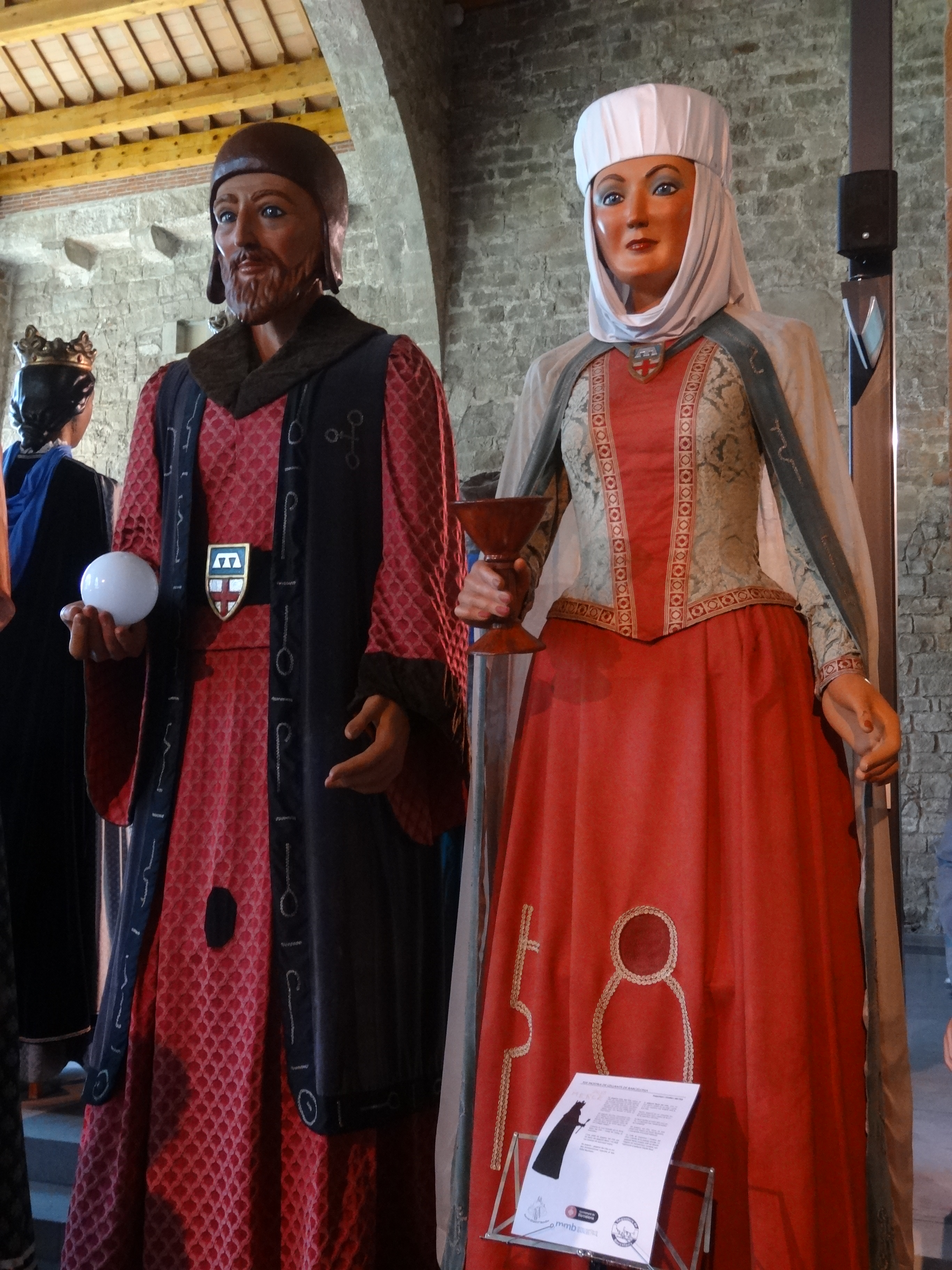 Exhibition of Giants at the Museu Marítim, Barcelona, 2013.